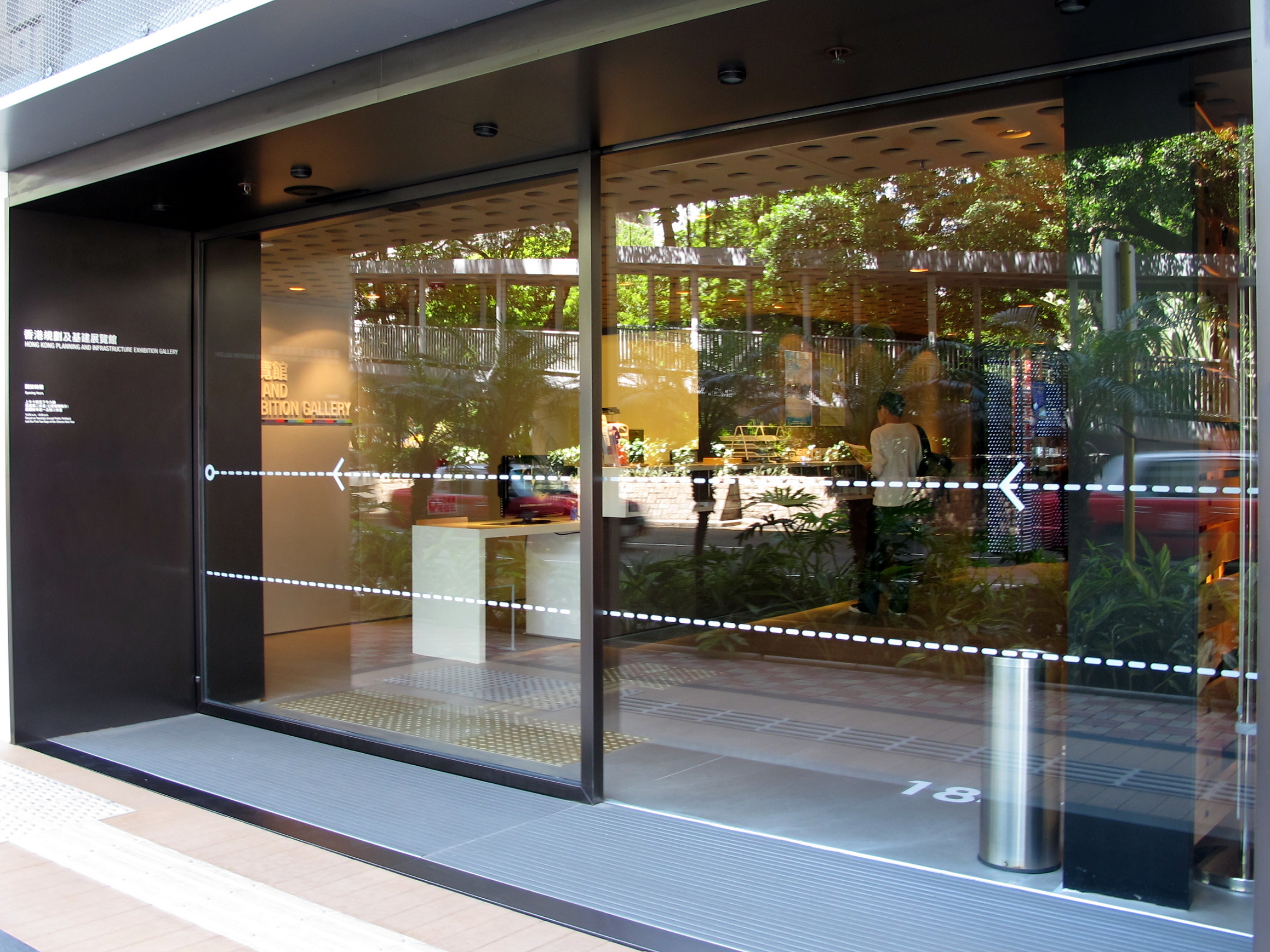 Hong Kong Planning and Infrastructure Exhibition Gallery 香港規劃及基建展覽館